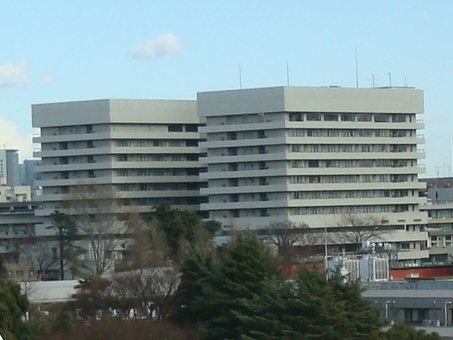 The Keio Byoin Hospital, Tokyo